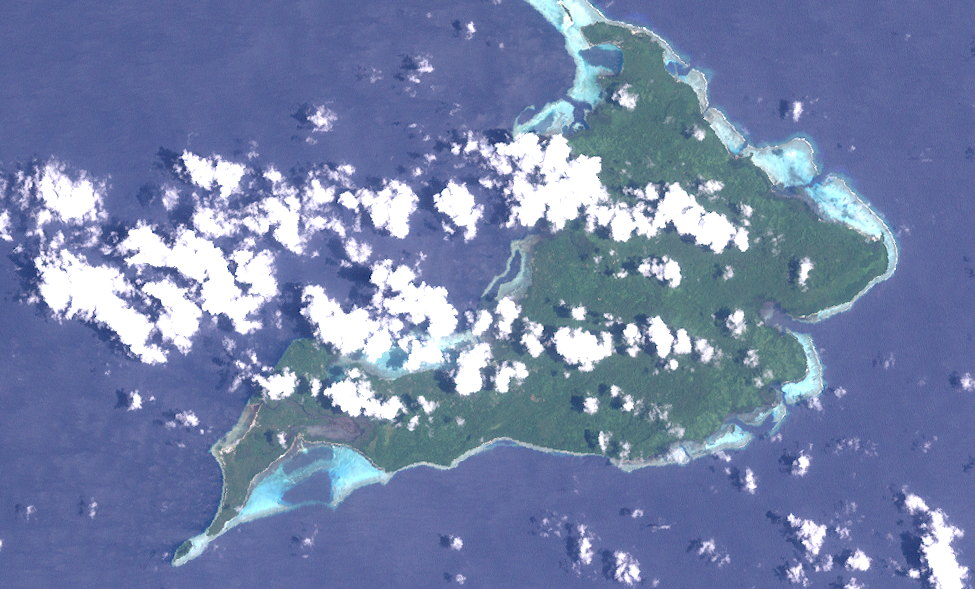 This image (Landsat7) shows Rambutyo Island, Horno Islands, Admiralty Group.